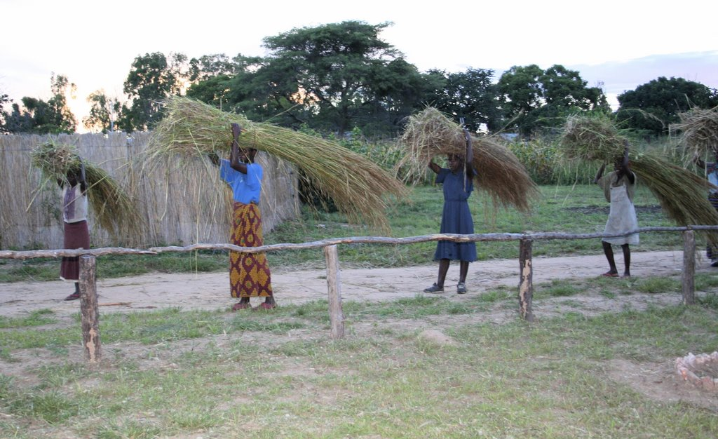 Women carrying grass/reeds for roof thatching and fences, Zambia